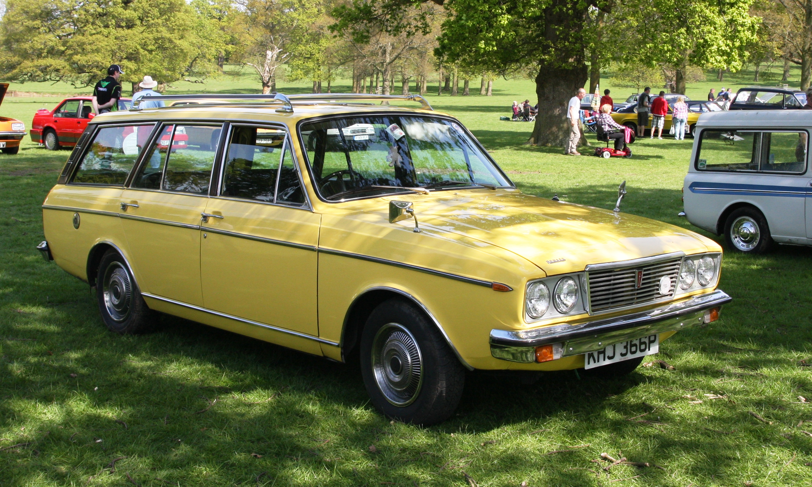 Humber Sceptre estate (1975)